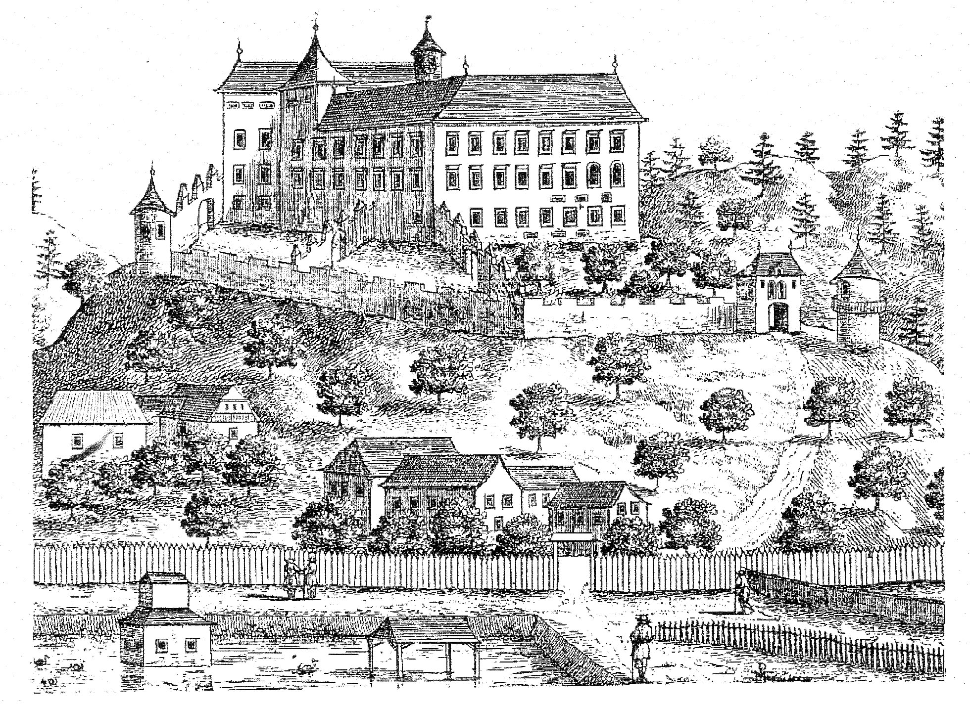 Drawing of Waisenberg from Vischer - 17th century.